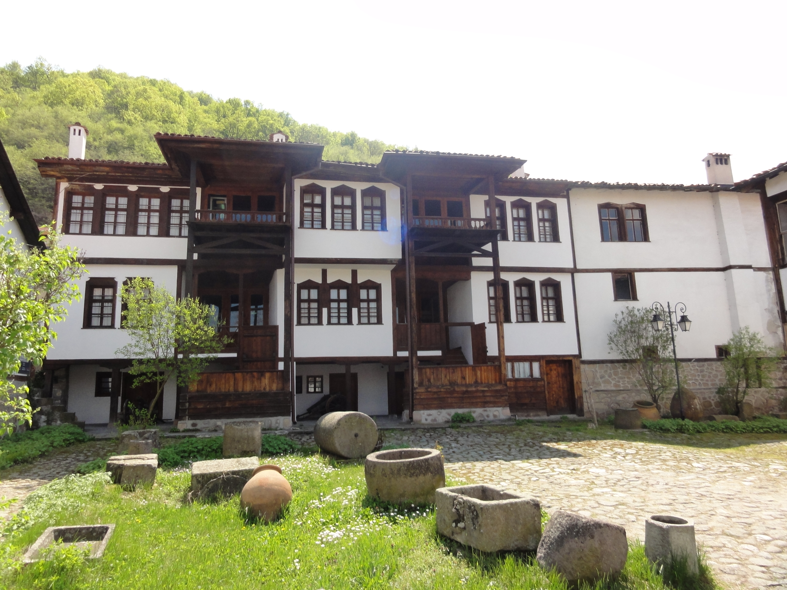 Popovi Houses - Museum of the Bratsigovo Architecture and Construction School during the Bulgarian Revival. Built in 1847. Presents the work of the famous Bratsigovo builders.